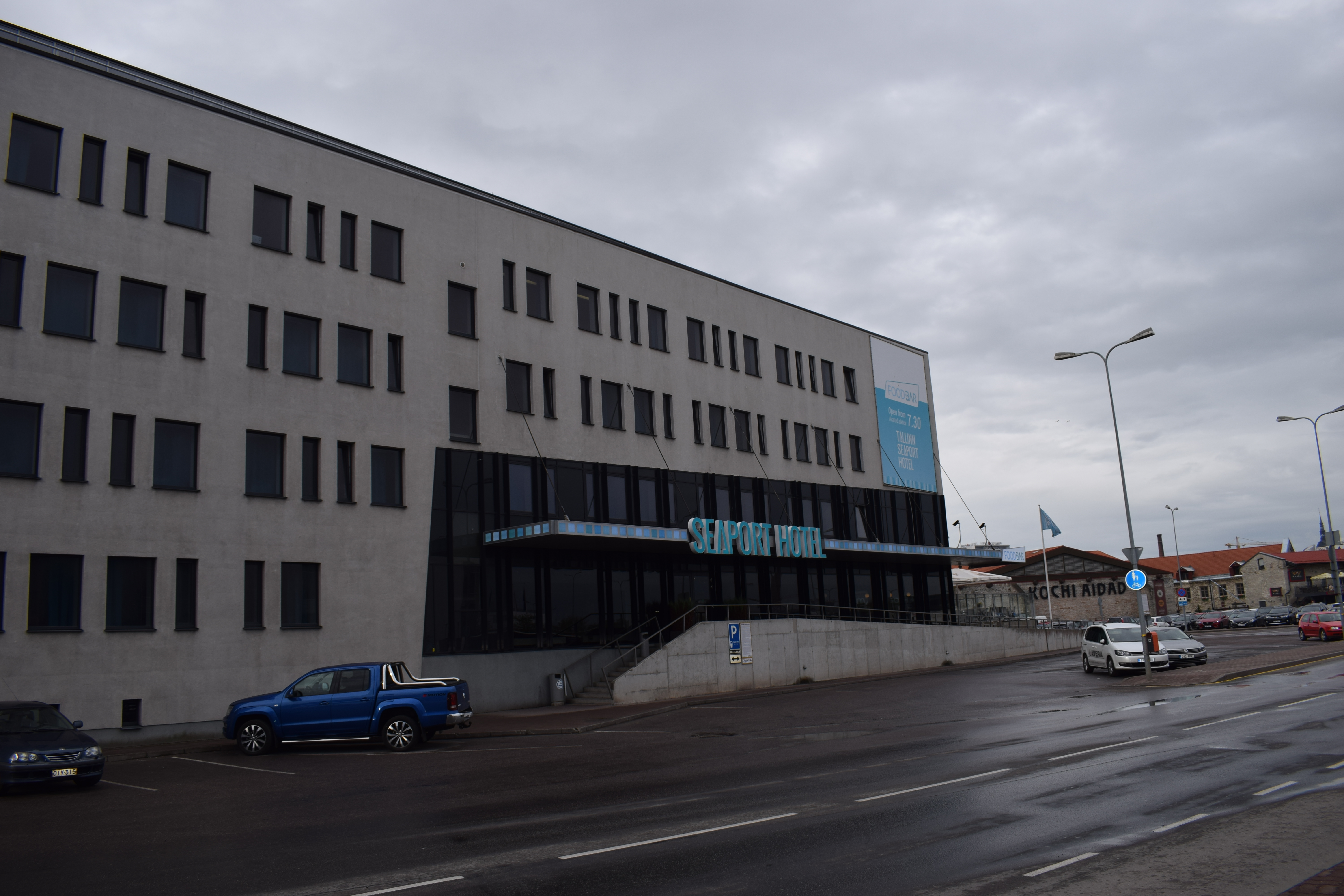 Seaport Hotel